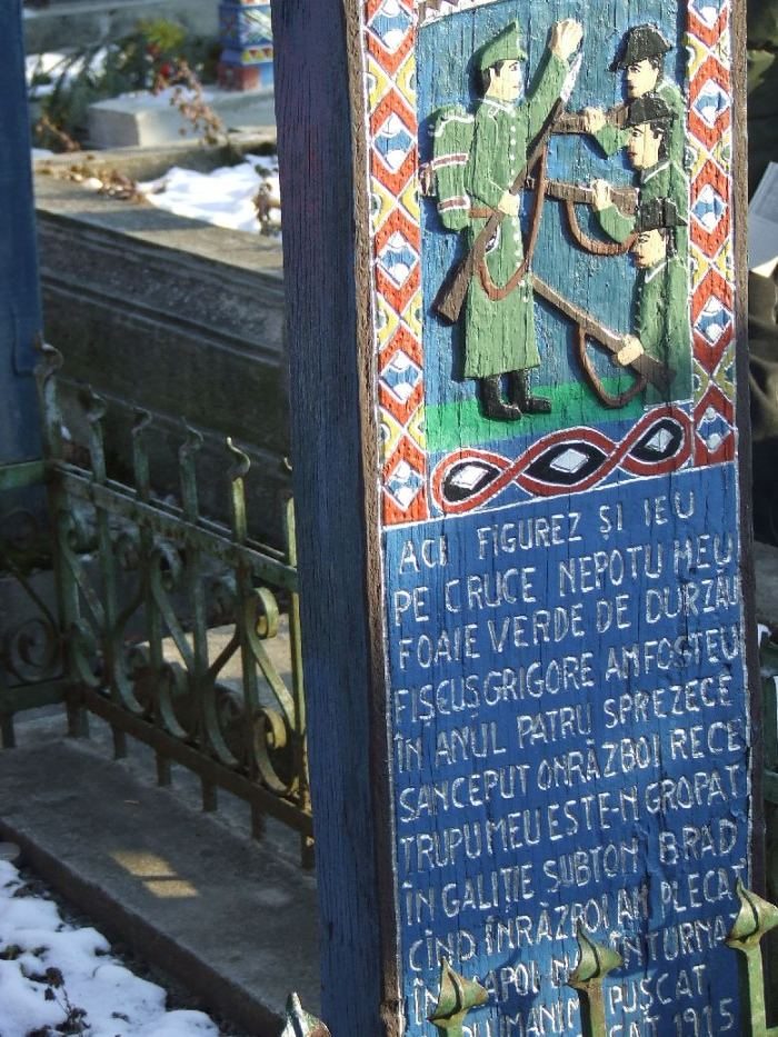 Săpânţa Cemetery, Maramureş County, Romania